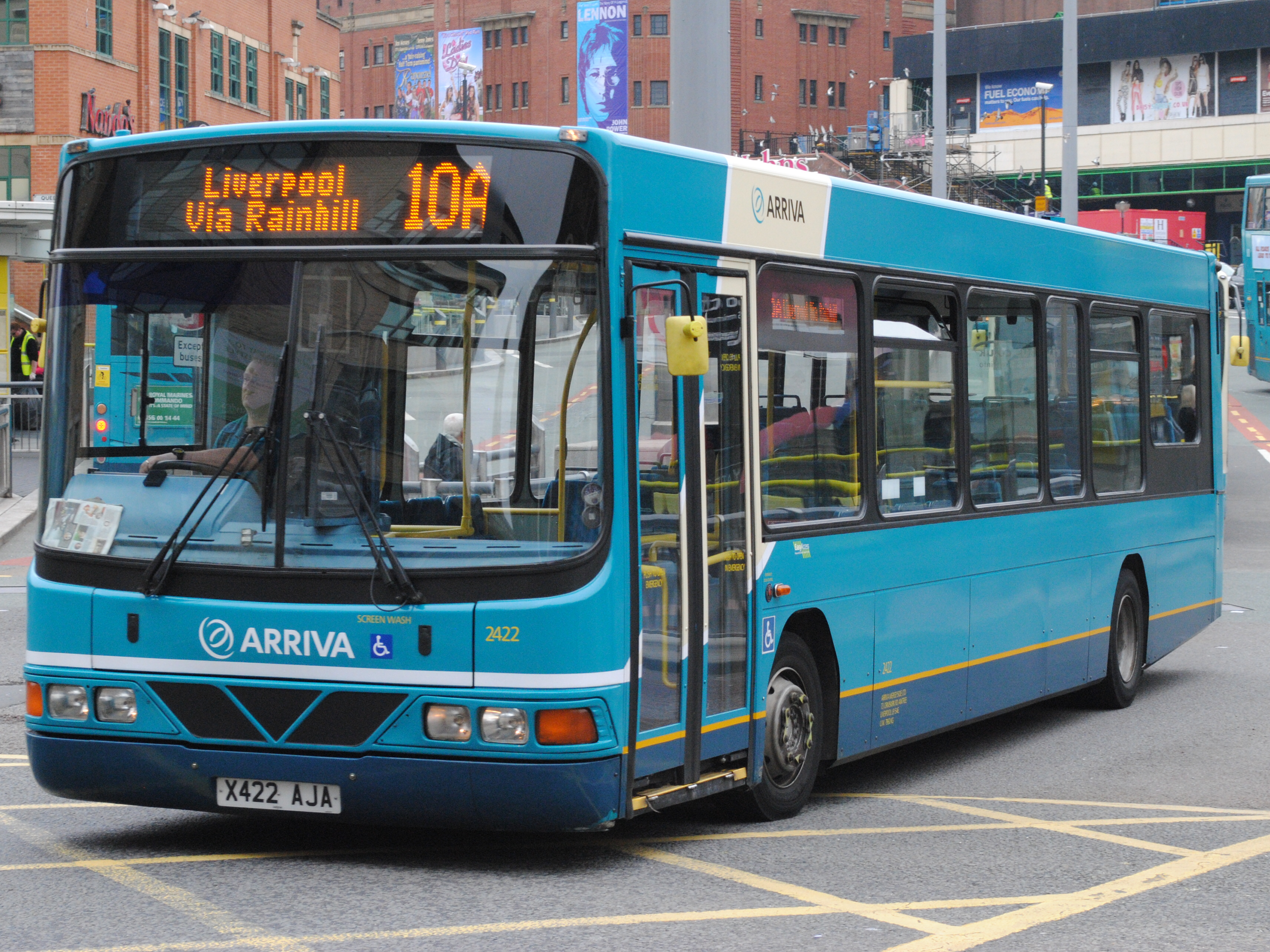 DAF SB120CS Wright Cadet. on rare 10A St Helens - Liverpool route normally used VDL SB200CS Wright Pulsar & Pulsar 2